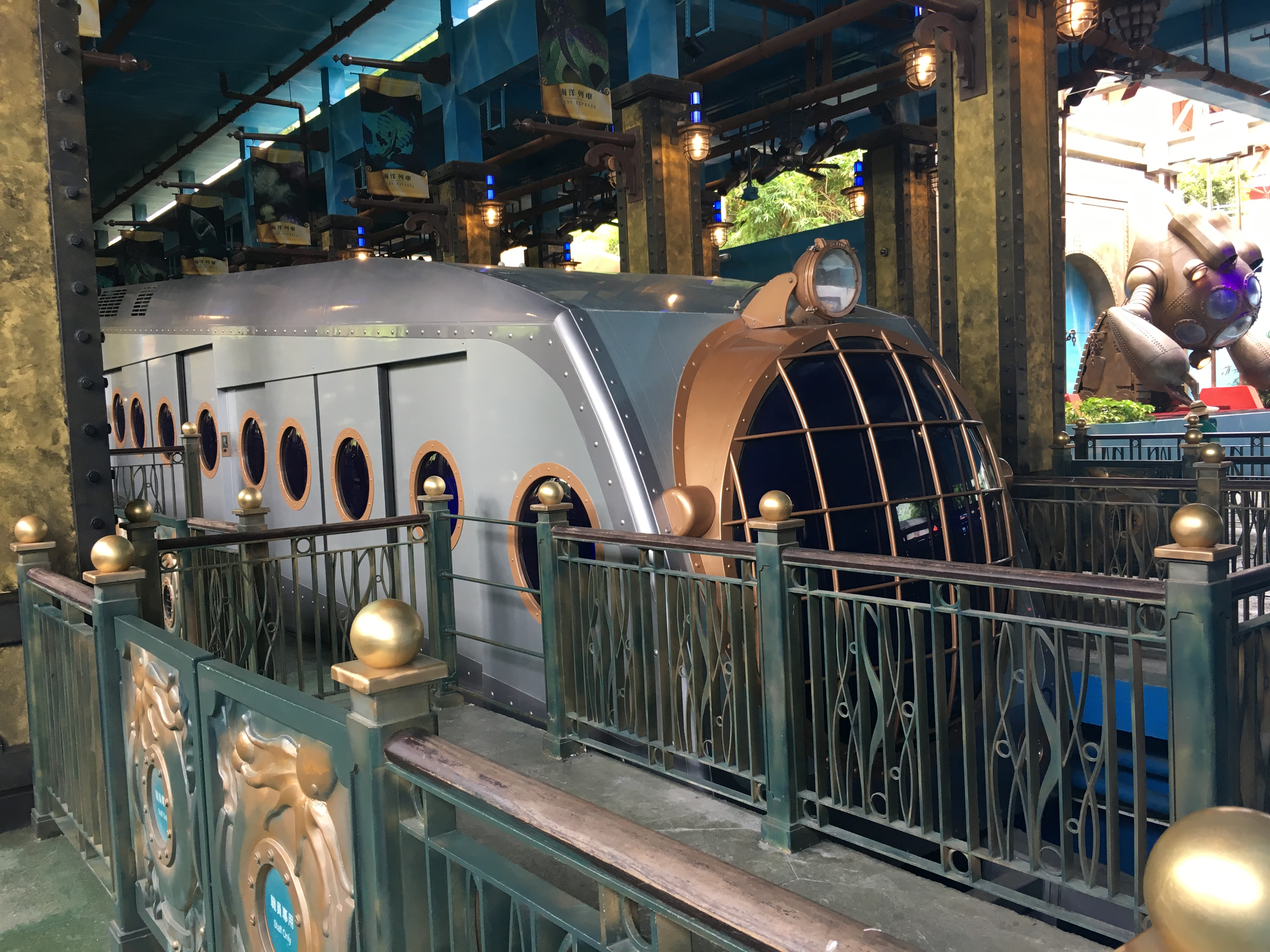 中文（香港）: This photo is taken in Ocean Park.